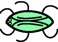 This is a reproduction of the Aztec glyph for the "water boatman" insect as seen in the Florentine Codex Book 11. In Nahuatl, the language of the Aztecs, it is called either "axaxayacatl" or "axayacatl" McDavitt, M. (n.d.). The astonishing axacayatl. Mexicalore. Retrieved September 10, 2012, from link